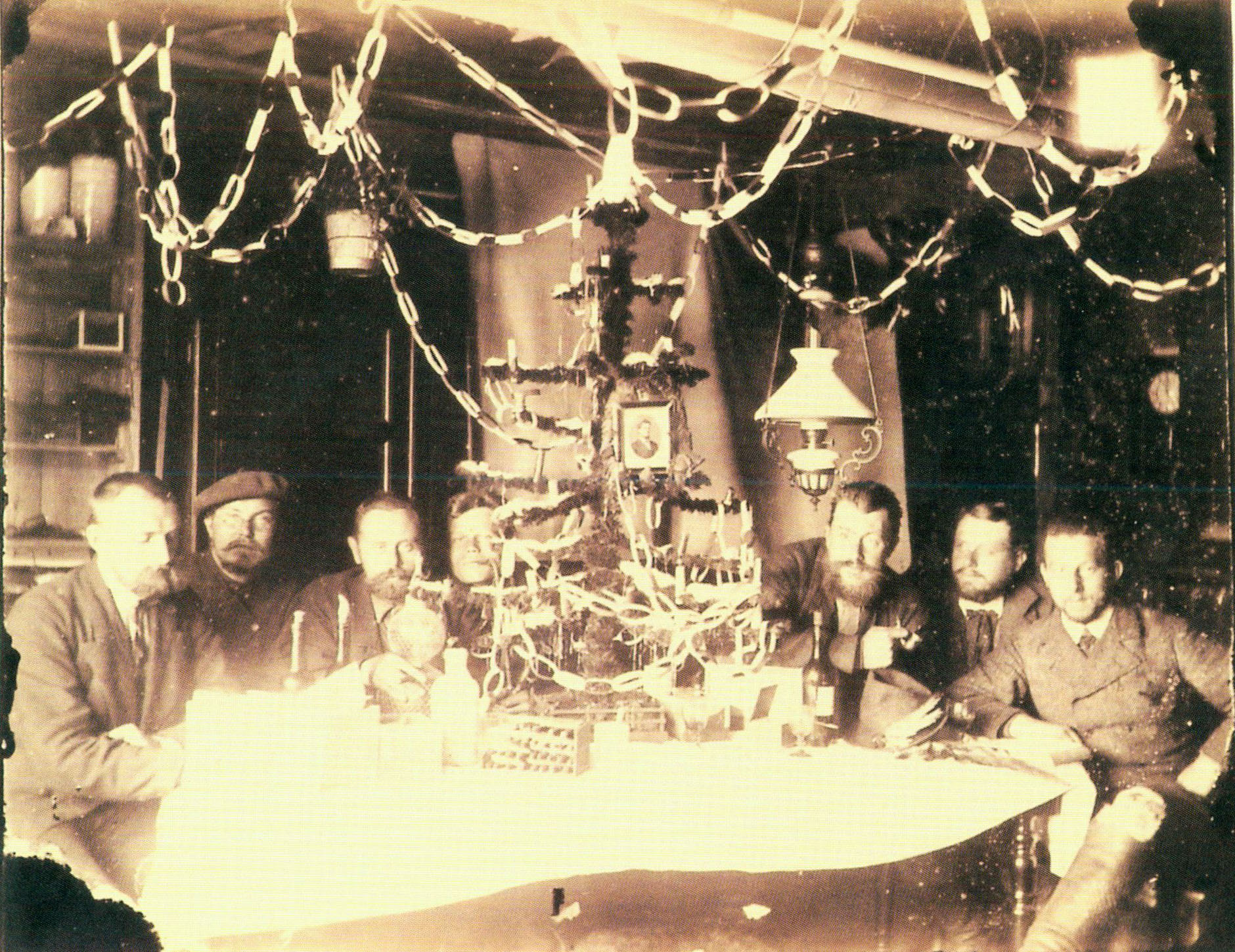 Christmas 1882 in the common living- und workroom of the station seen from the NE corner of the room Dr. Schrader, Dr. Vogel, Dr. v. d. Steinen, Mech. Zschau, Ing. Mosthaff, Dr. Will, Dr. Clauß decorated table with artificial Christmas tree with presents from home